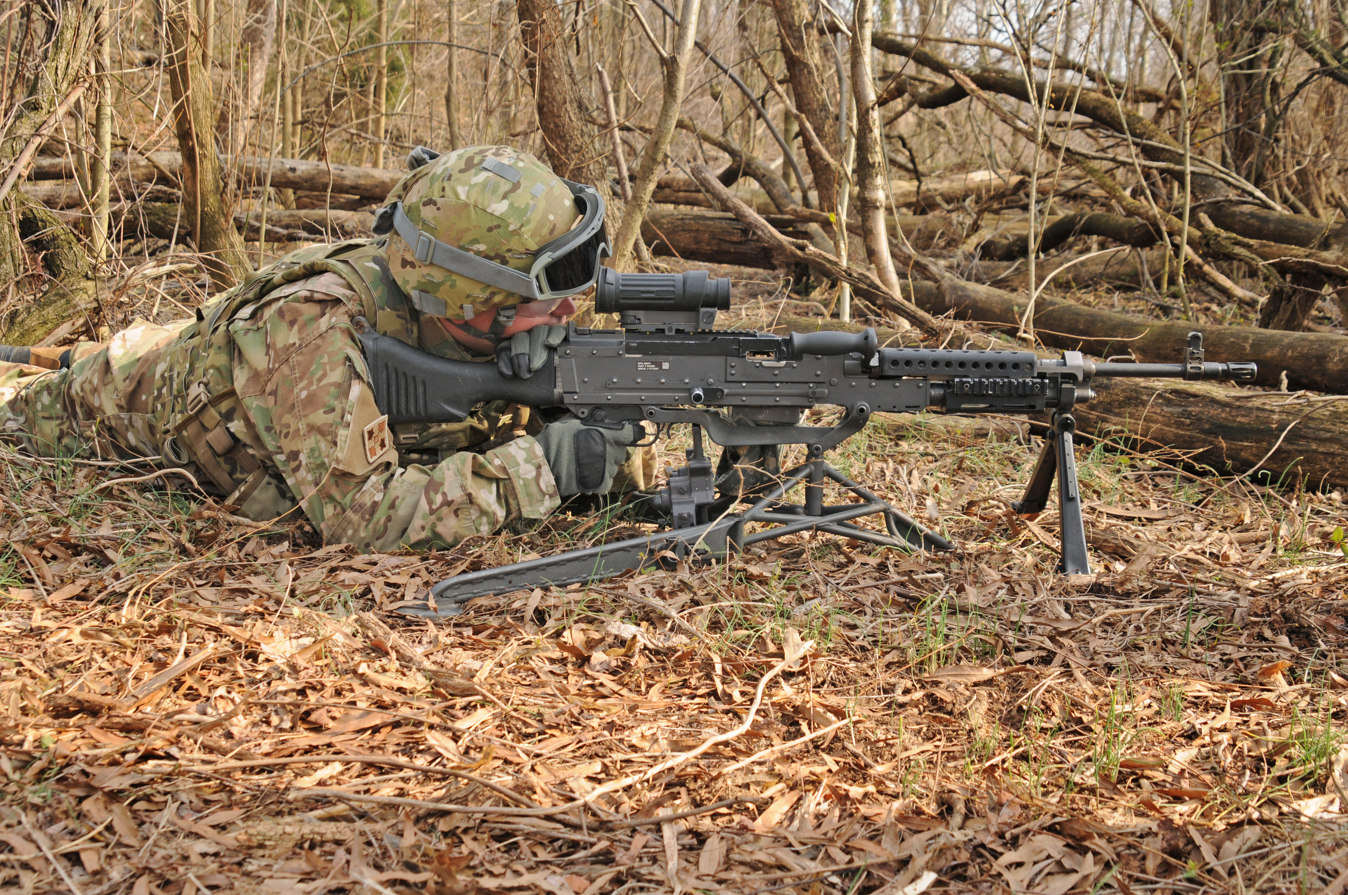 The M240L 7.62mm Medium Machine Gun (Light) reduces the weight of the existing M240B without compromising reliability.